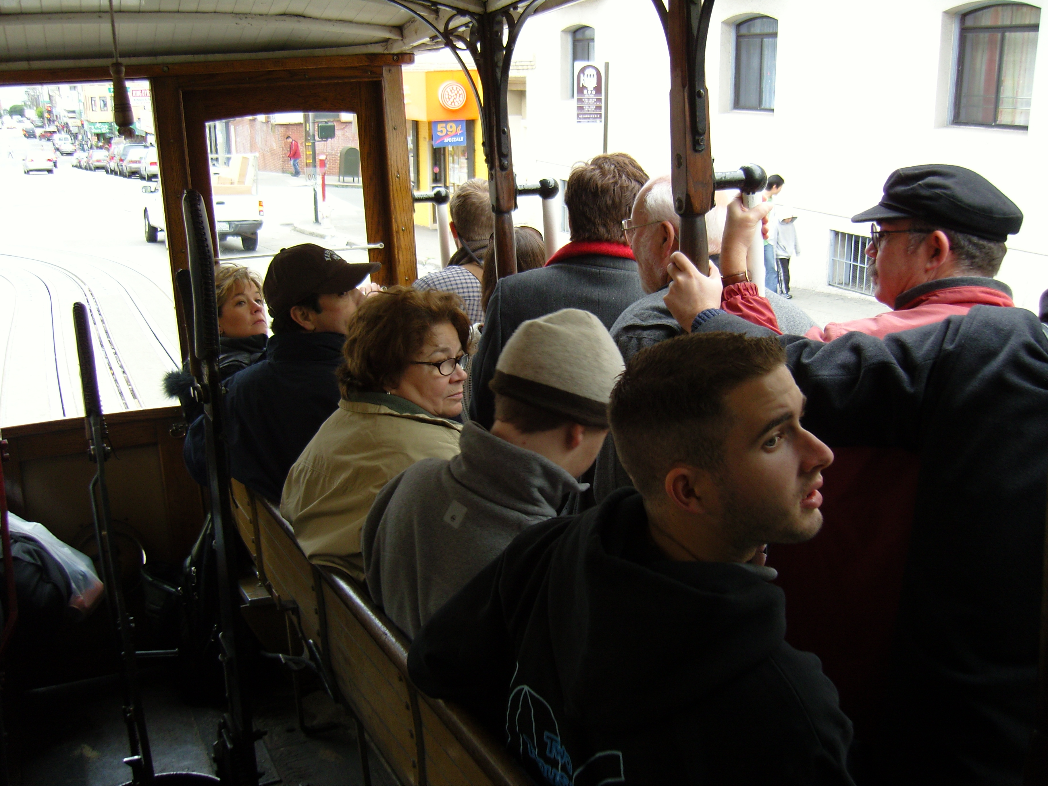 Passengers on a cable car at San Francisco, California.